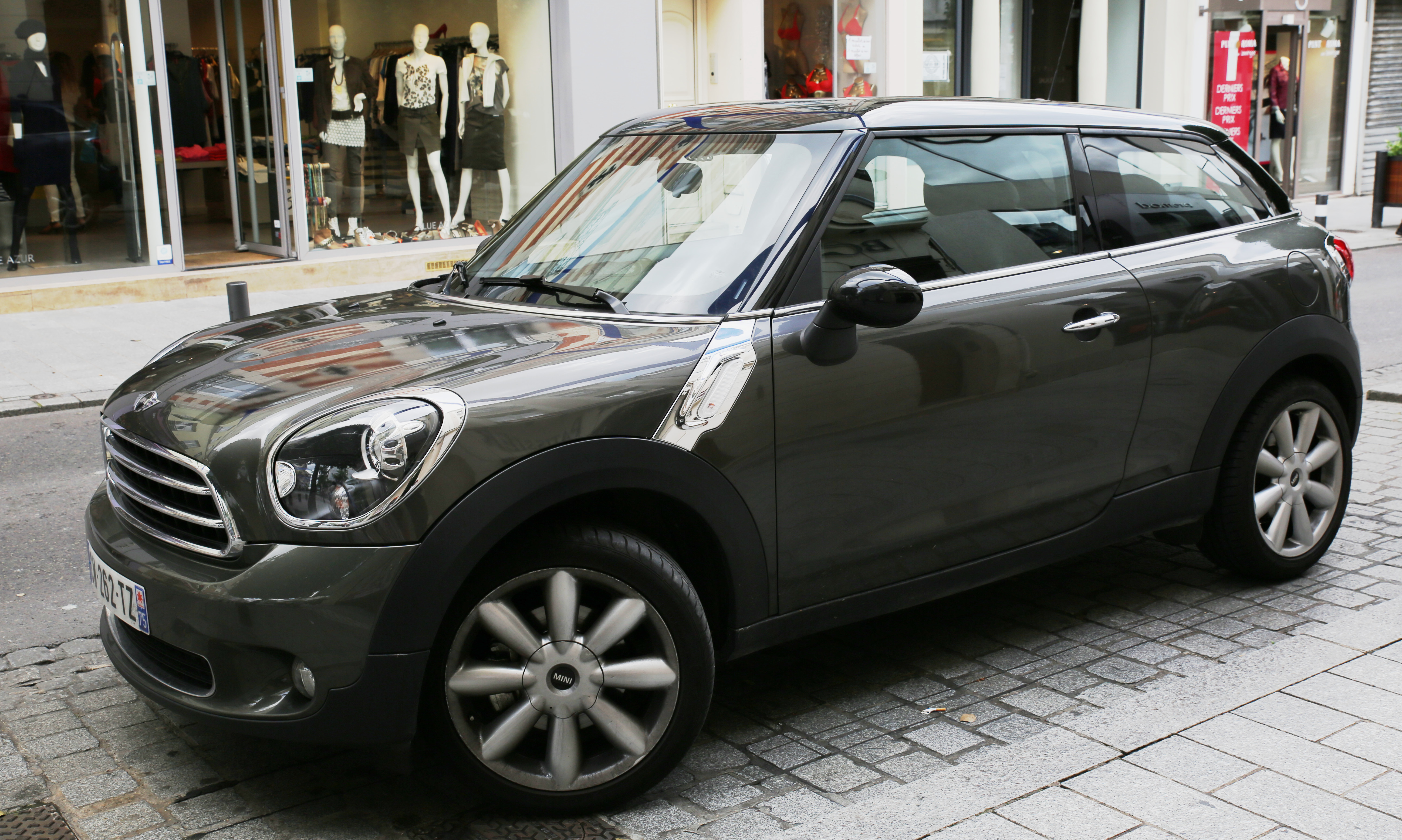 Mini R61